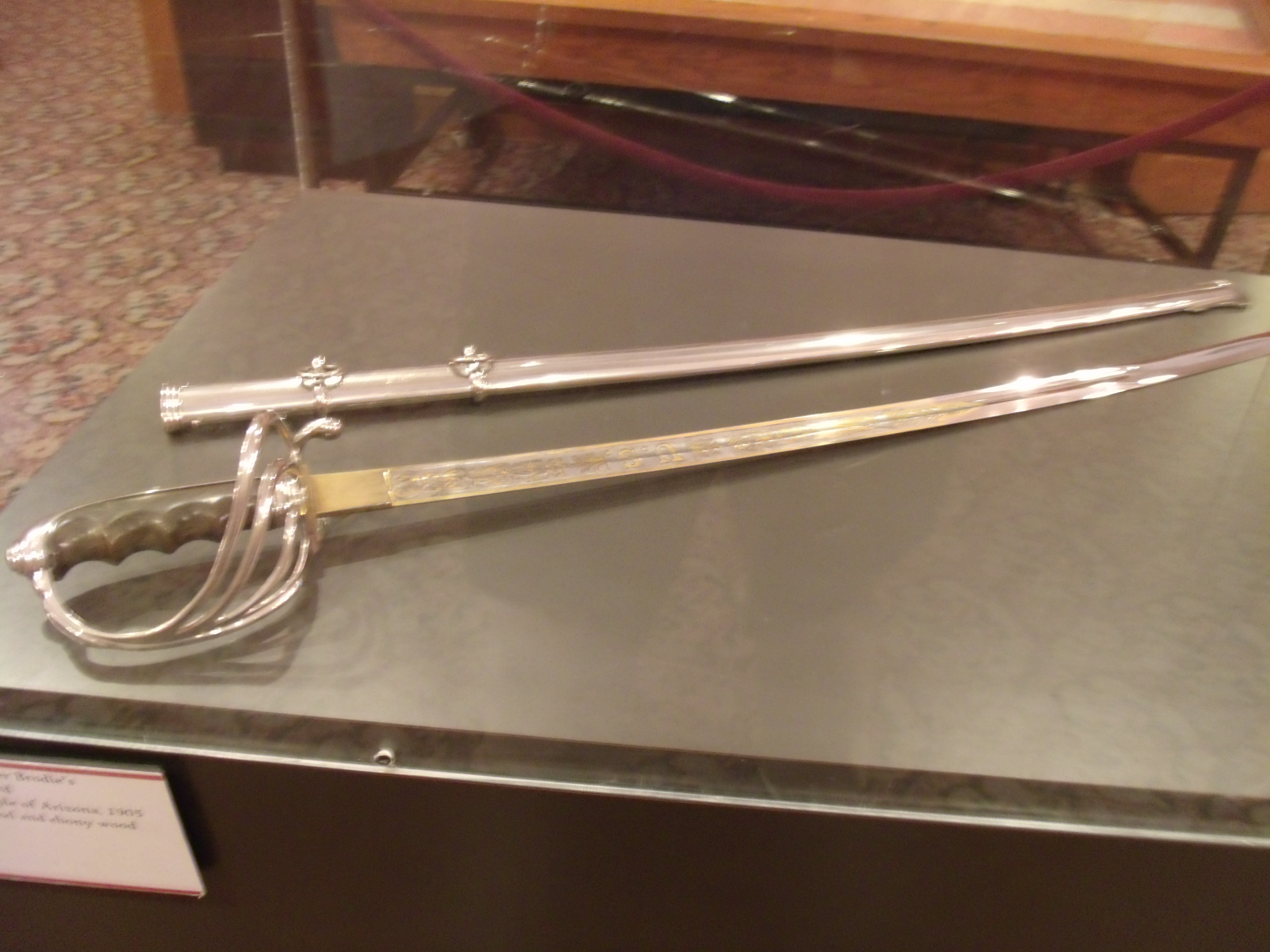 The sword and scabbard which Alexander Oswald Brodie, who served as the Governor of the Territory of Arizona from 1902 to 1905, used during his service with the Rough Riders during the Spanish-American War. The exhibit is located in the second floor of the Arizona State Capitol Museum.